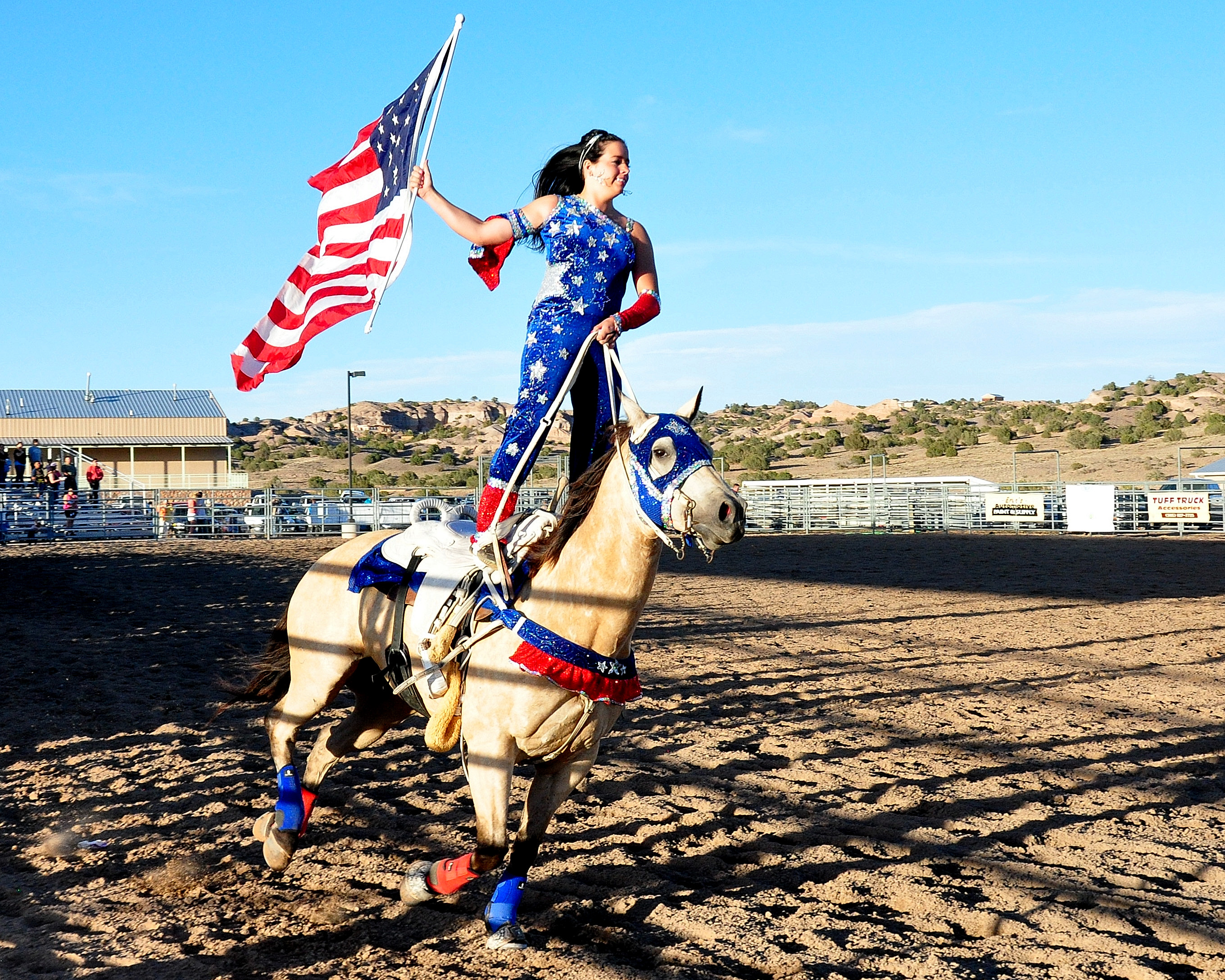 Old Abiquiu - Rio Arriba County Fairgrounds, El Rito Highway in Abiquiu, New Mexico